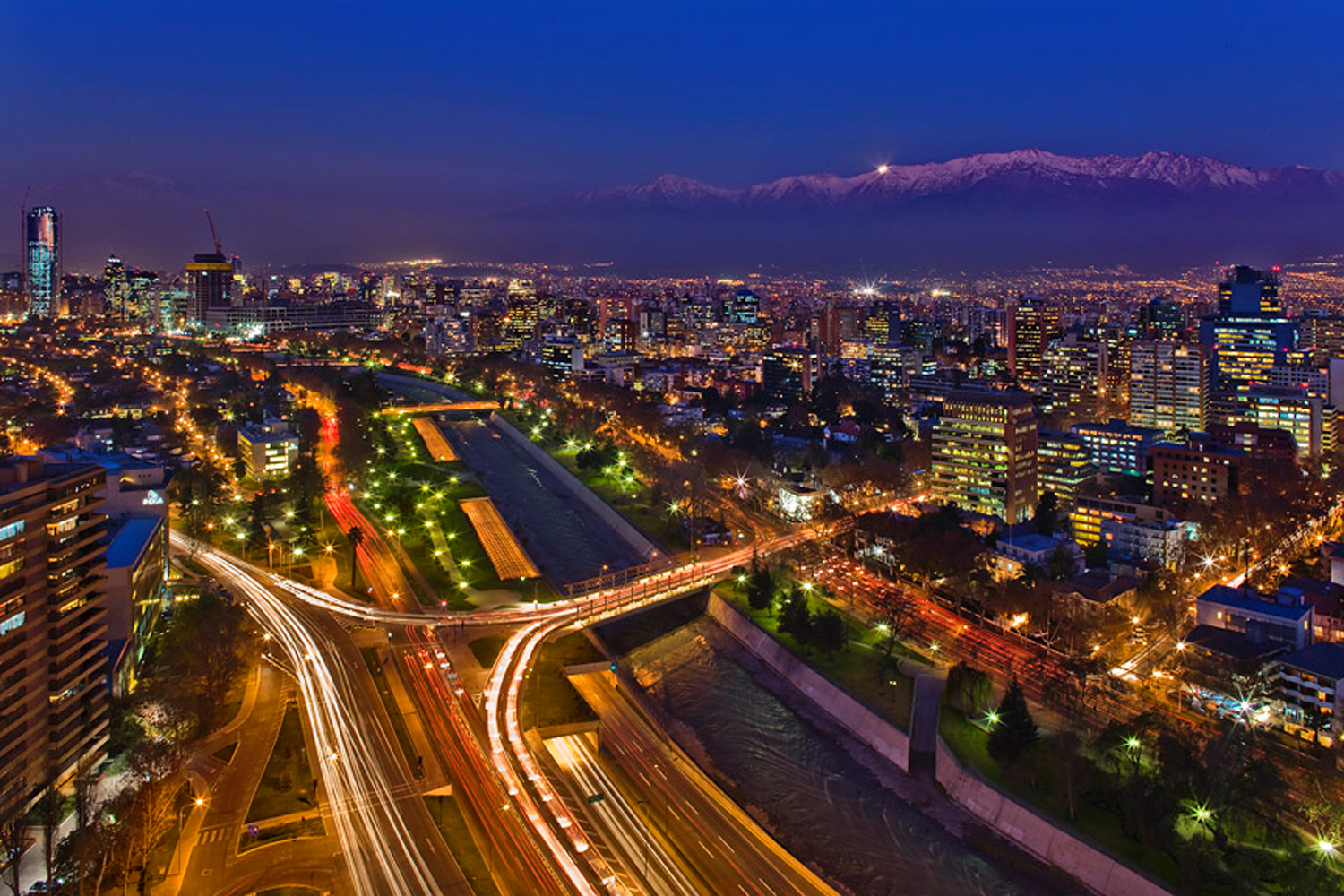 La capital de Chile en su esplendor nocturno